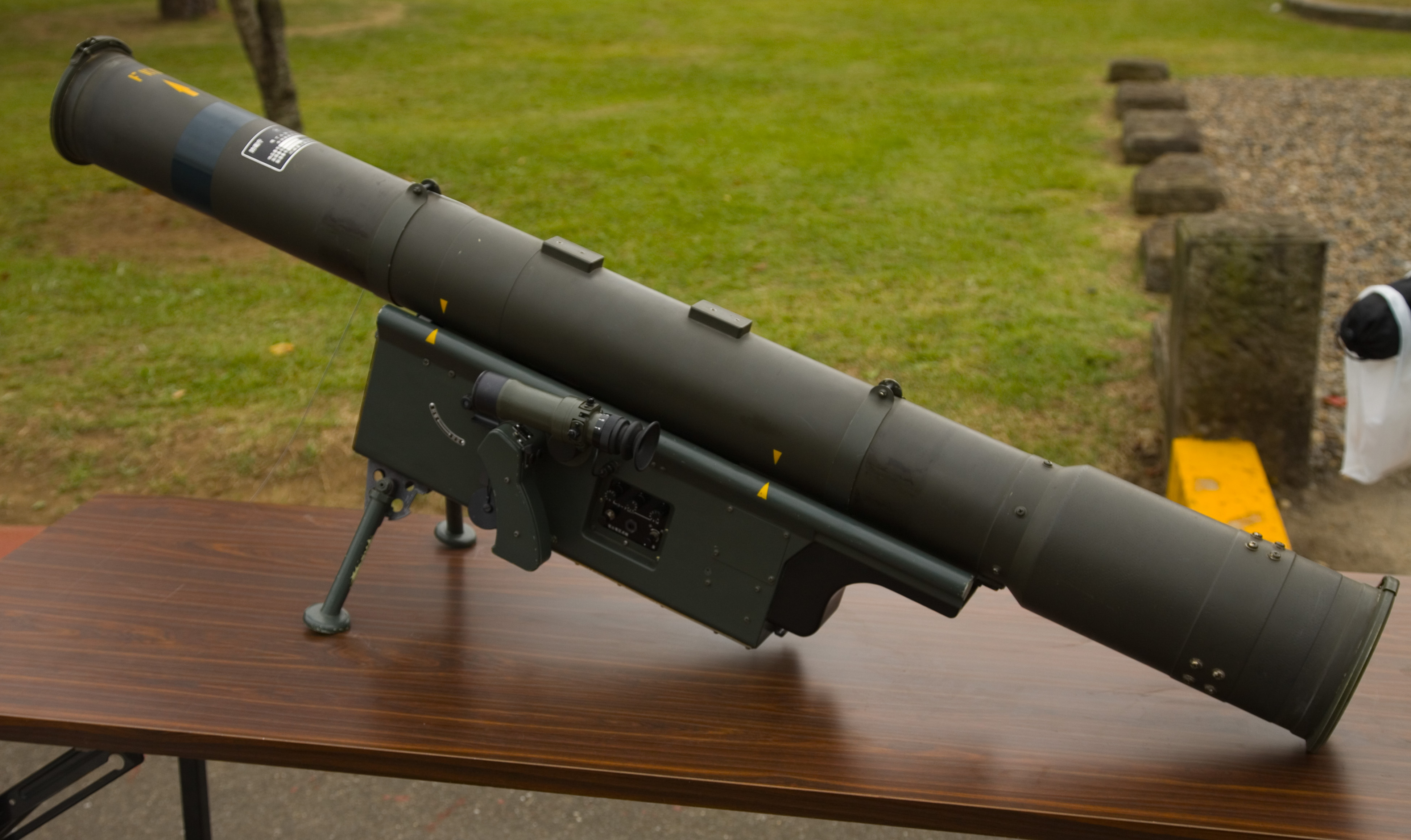 A Japanese ATGM Type 87 MAT missile launcher on display. This is the launcher, not including the laser designator.